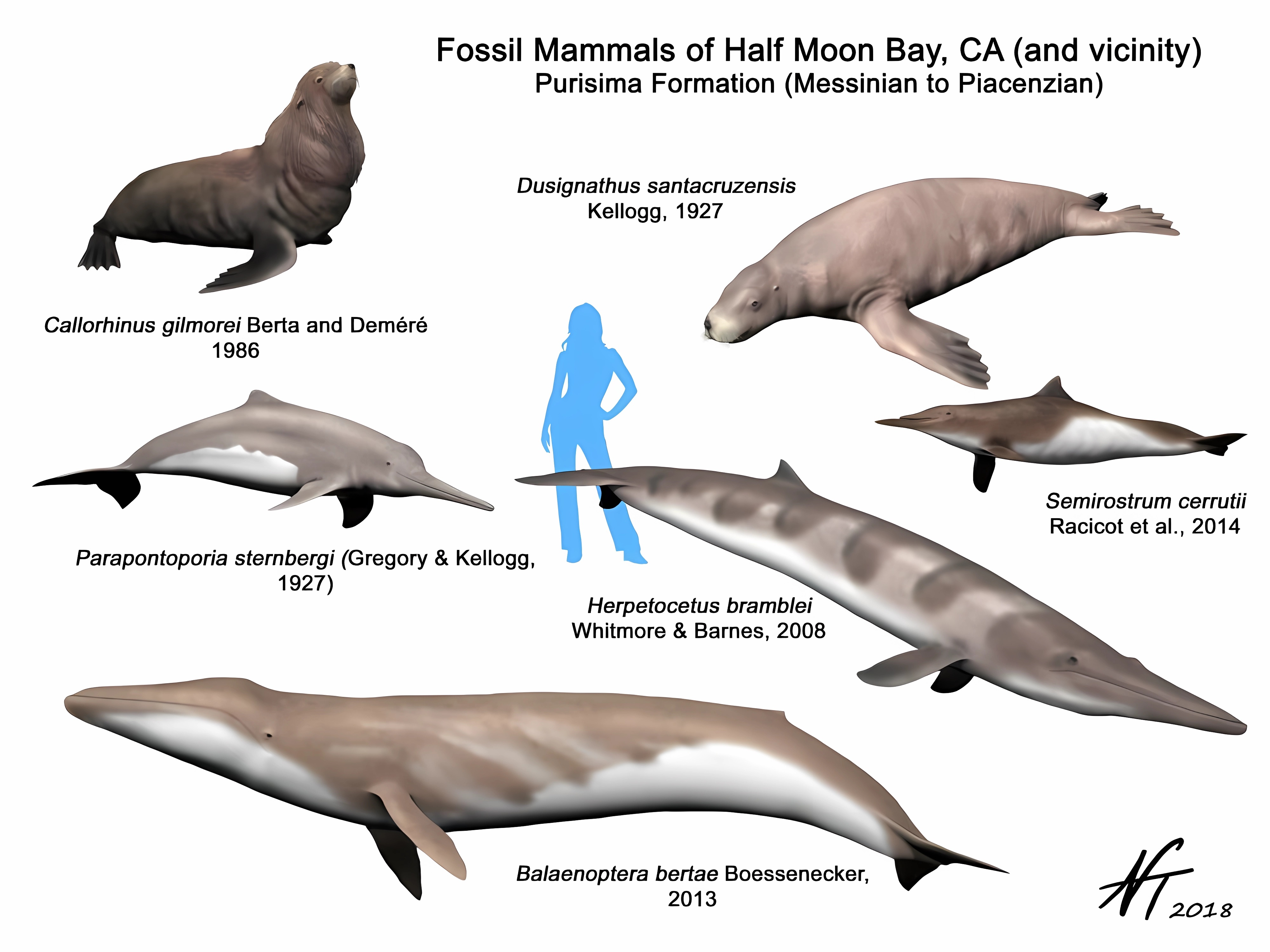 HalfMoonBay fossils